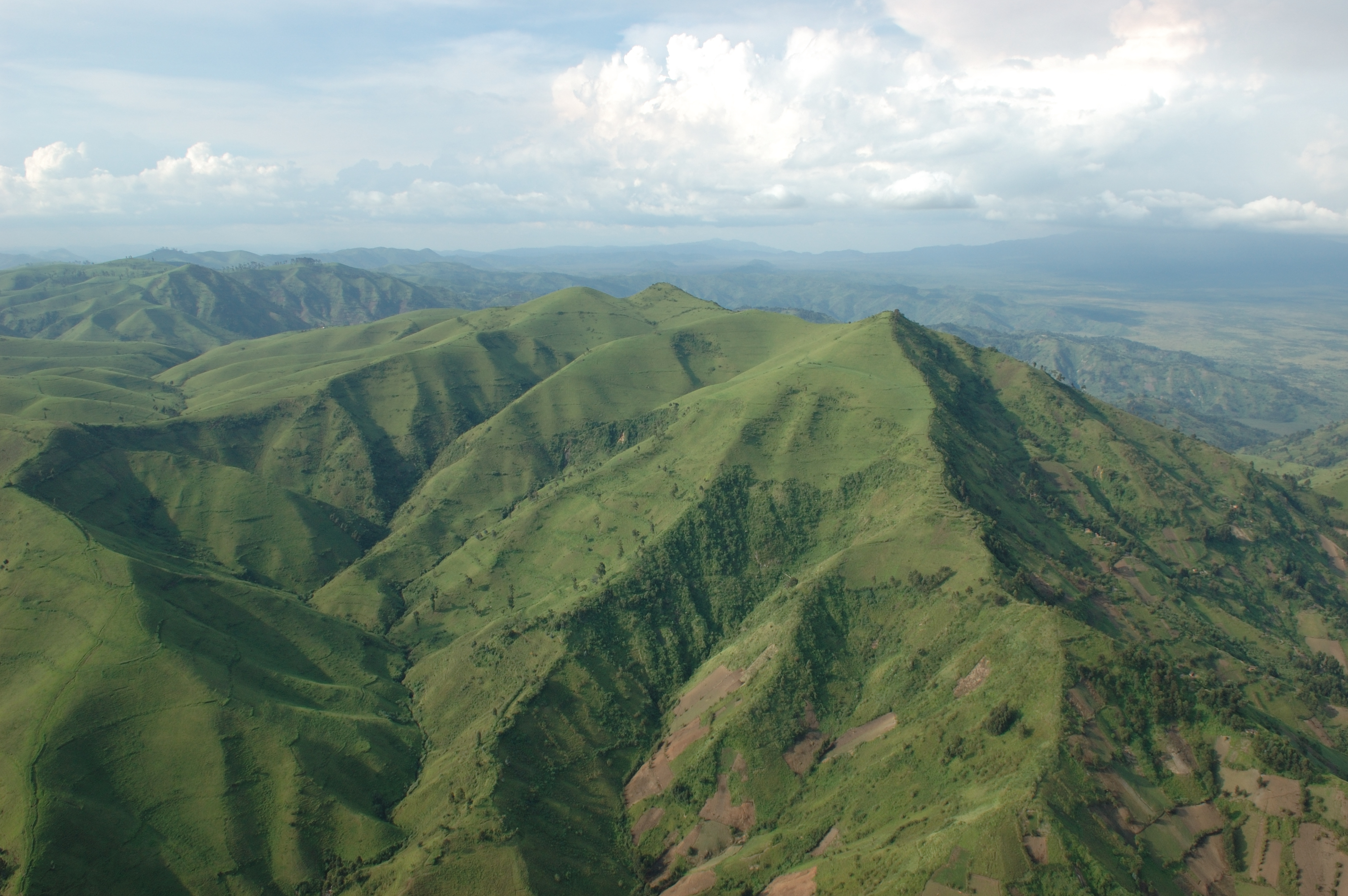 Flying back from jungle covered Walikale the contrast with Masisi was sharp. The late afternoon sun highlighted the lines of old fields in what are now pastures for cattle. The competition for land between herders and farmers is one of the factors feeding the instability in North Kivu.